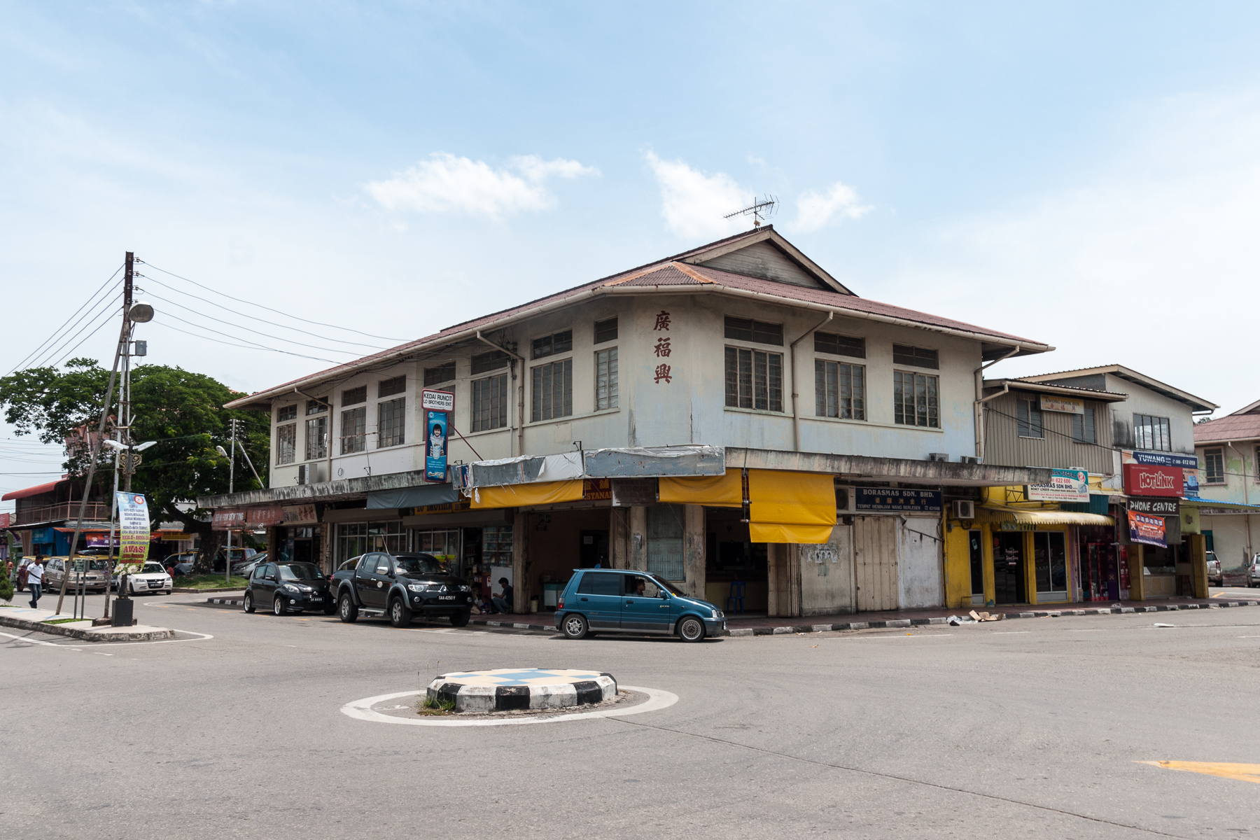 Kudat, Sabah: Town center